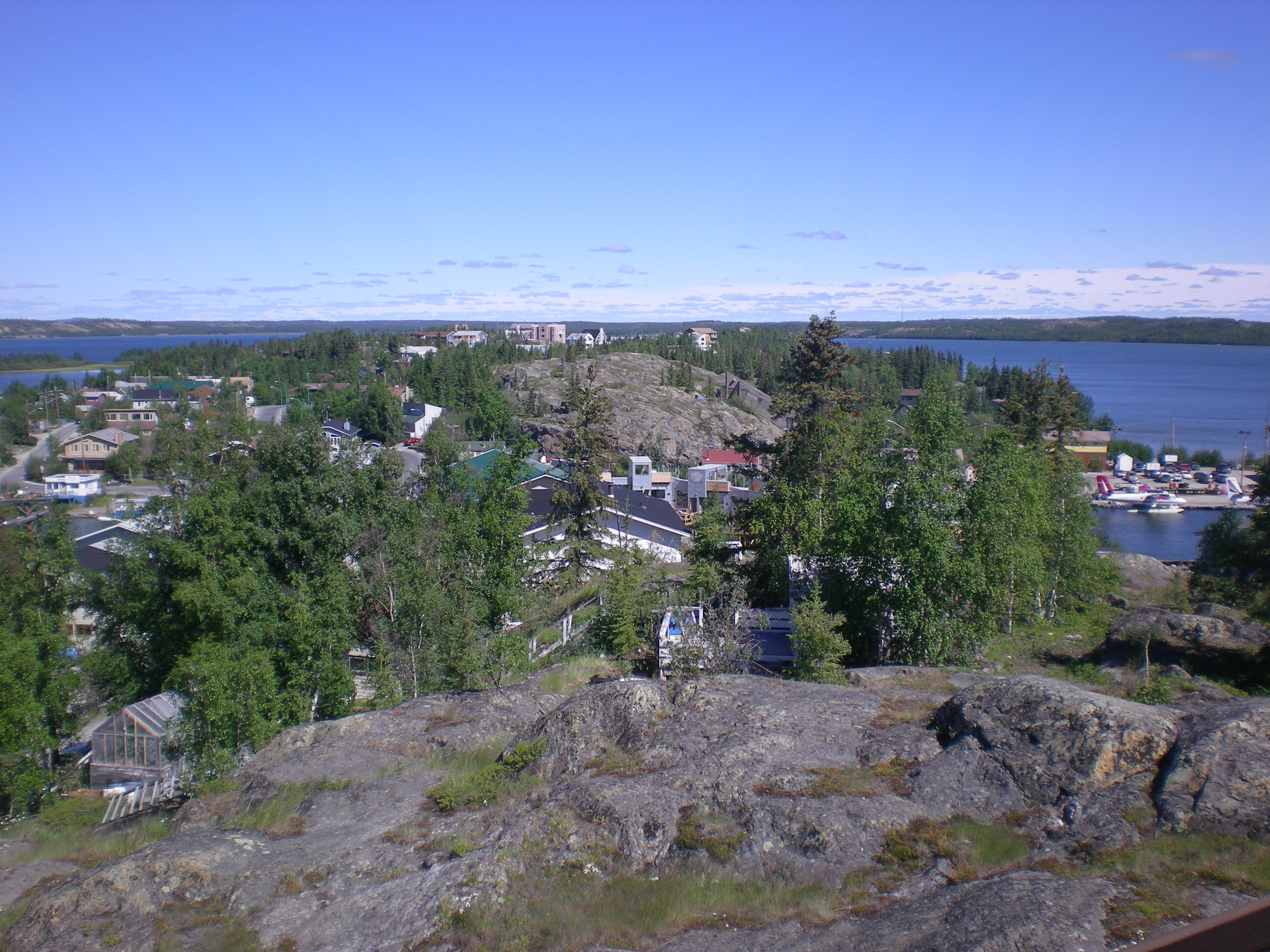 Looking across Yellowknife Old Town towards N'Dilo, Northwest Territories